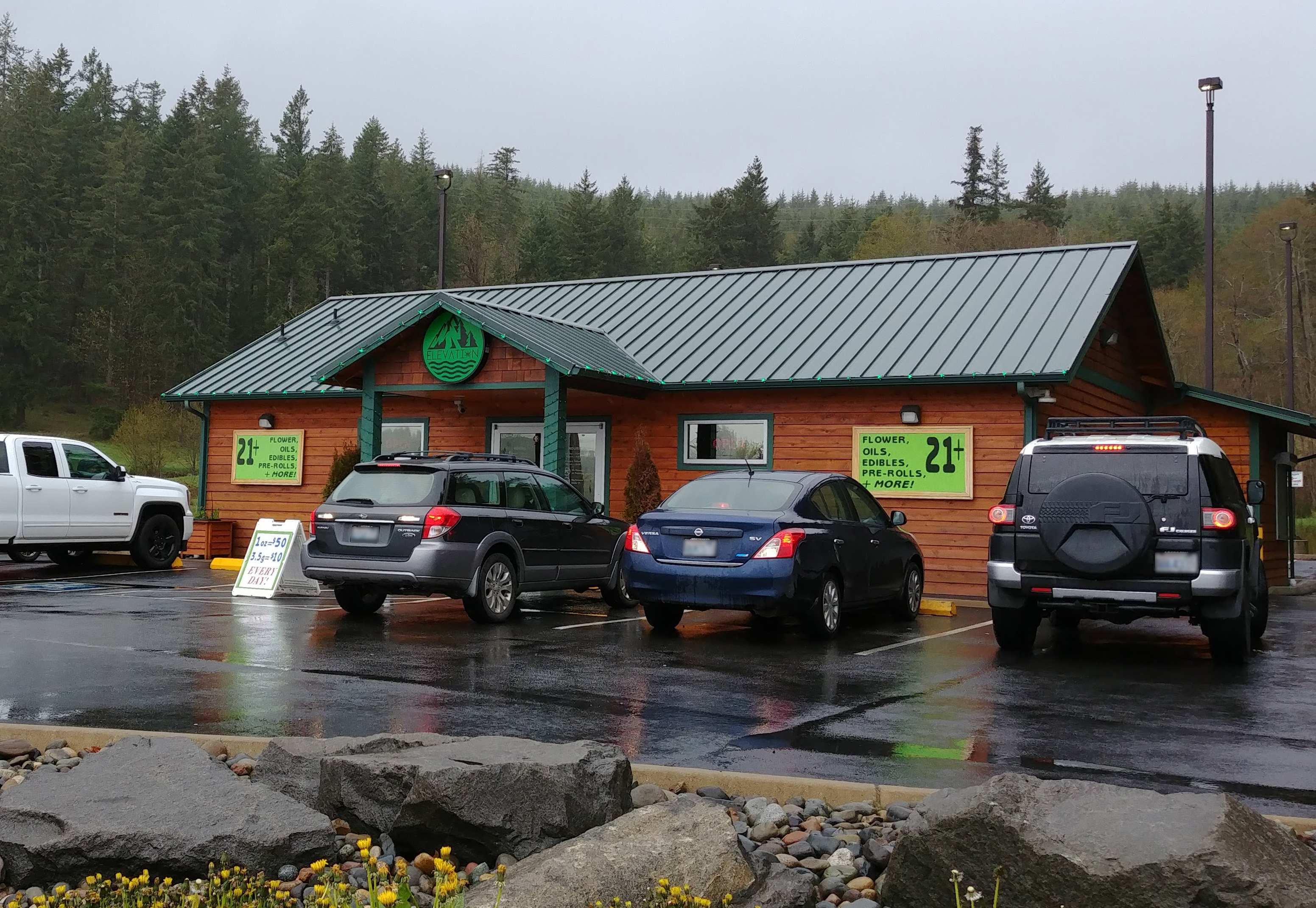 Exterior of Elevation Cannabis, owned by Squaxin Island Tribe at Kamilche, Washington, across State Route 108 from their casino